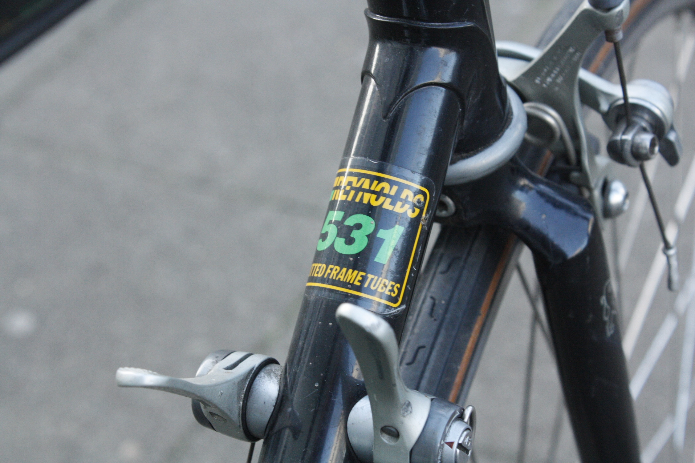 Peugeot Road Bike - Reynolds 531 label